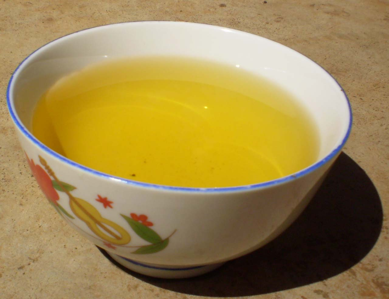 Fresh green tea is a popular bevarage in rural area of Vietnam.